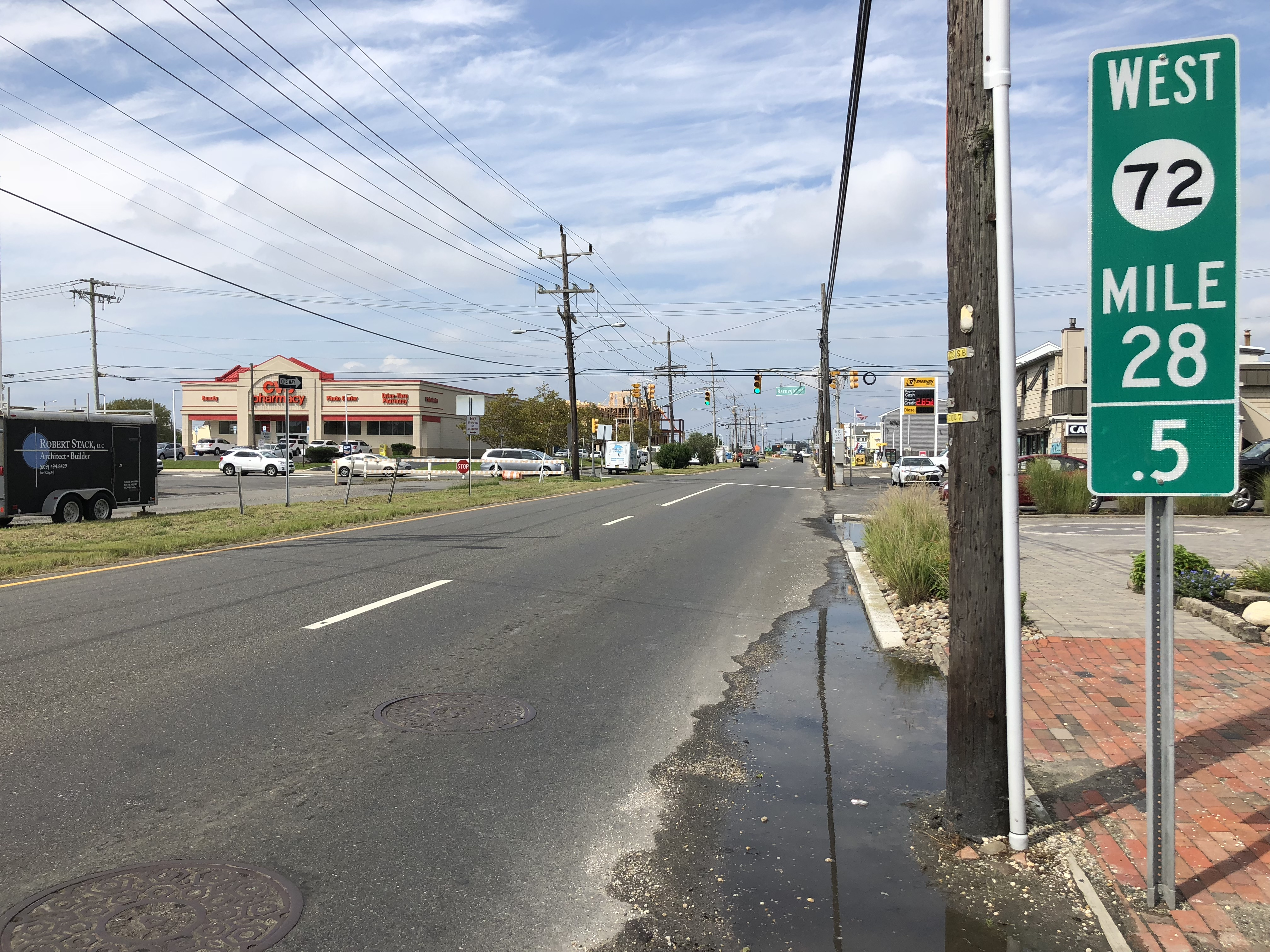 View west along New Jersey State Route 72 (8th Street) just east of Ocean County Route 4 (Barnegat Avenue) in Ship Bottom, Ocean County, New Jersey